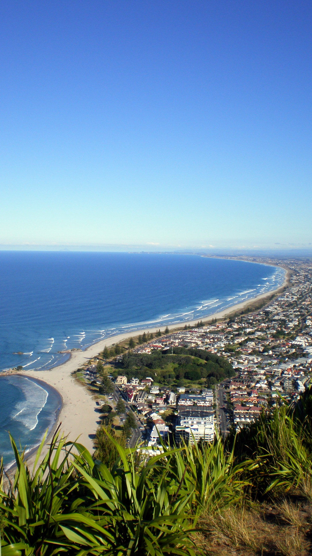 The Mount Maunganui shoreline taken from the summit of Mount Maunganui.